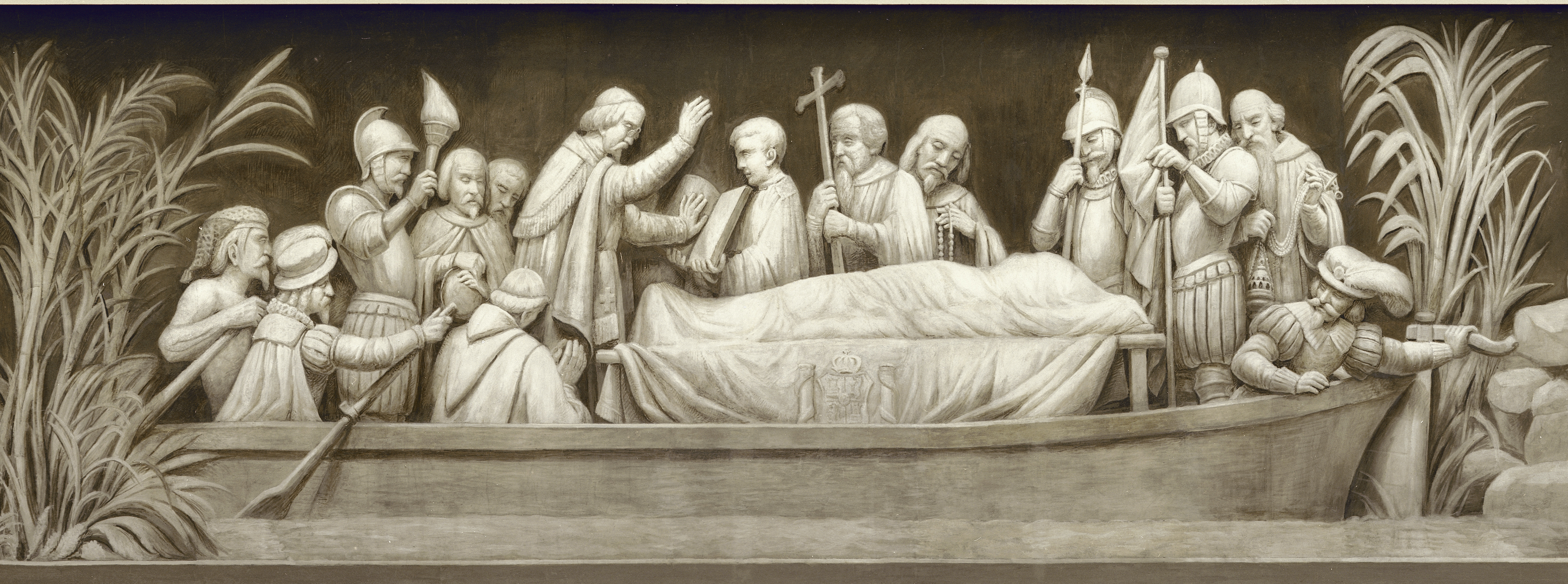 "Burial of DeSoto" - Spanish explorer Hernando DeSoto died of a fever while searching for gold in Florida and the territory north of the Gulf of Mexico. To protect his body from enemies, his men buried him at night in the Mississippi River, which he had been the first European to discover.